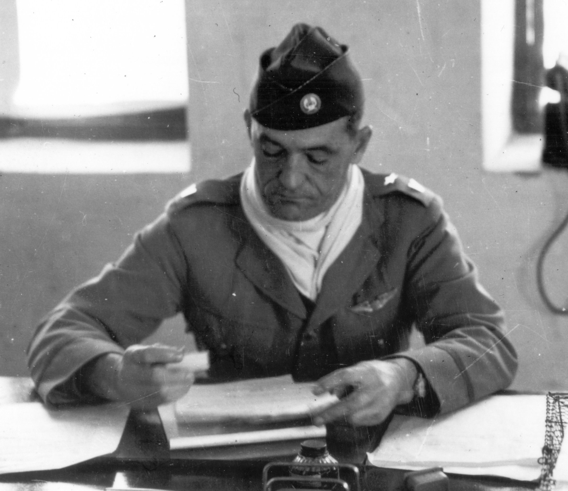 Claire Chennault in his office at Kunming, China, about May 1942